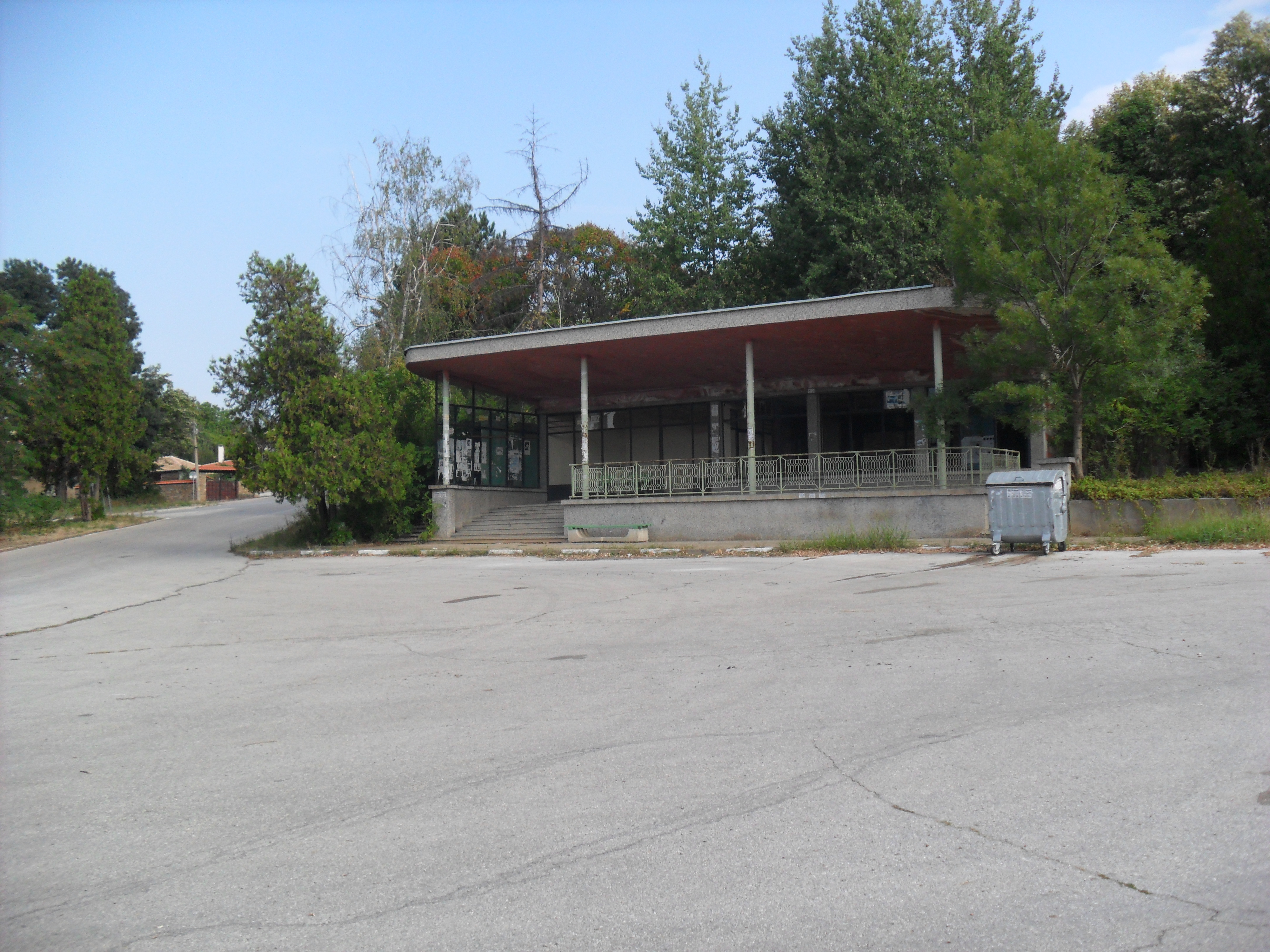 Bus station